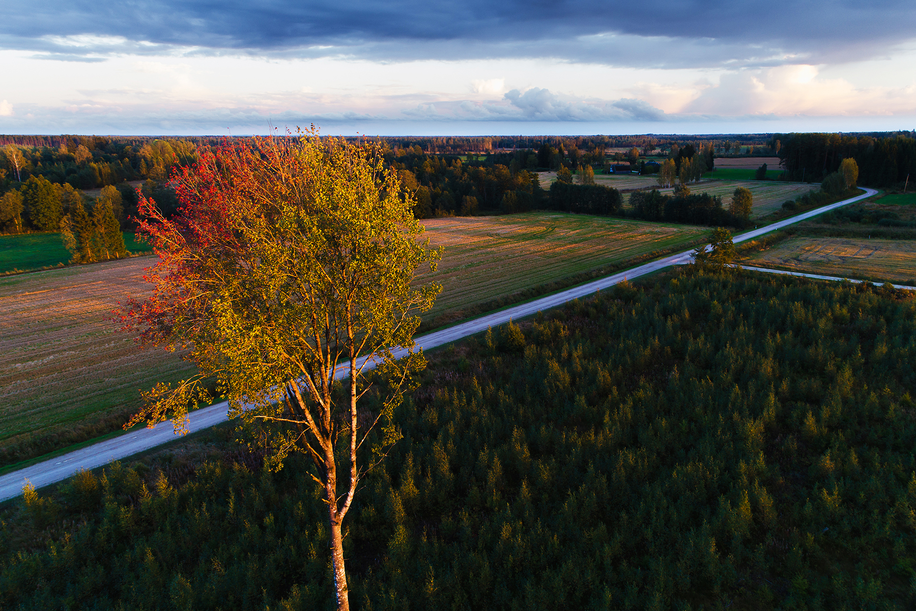 Oriküla läbiv tee, Pärnumaa